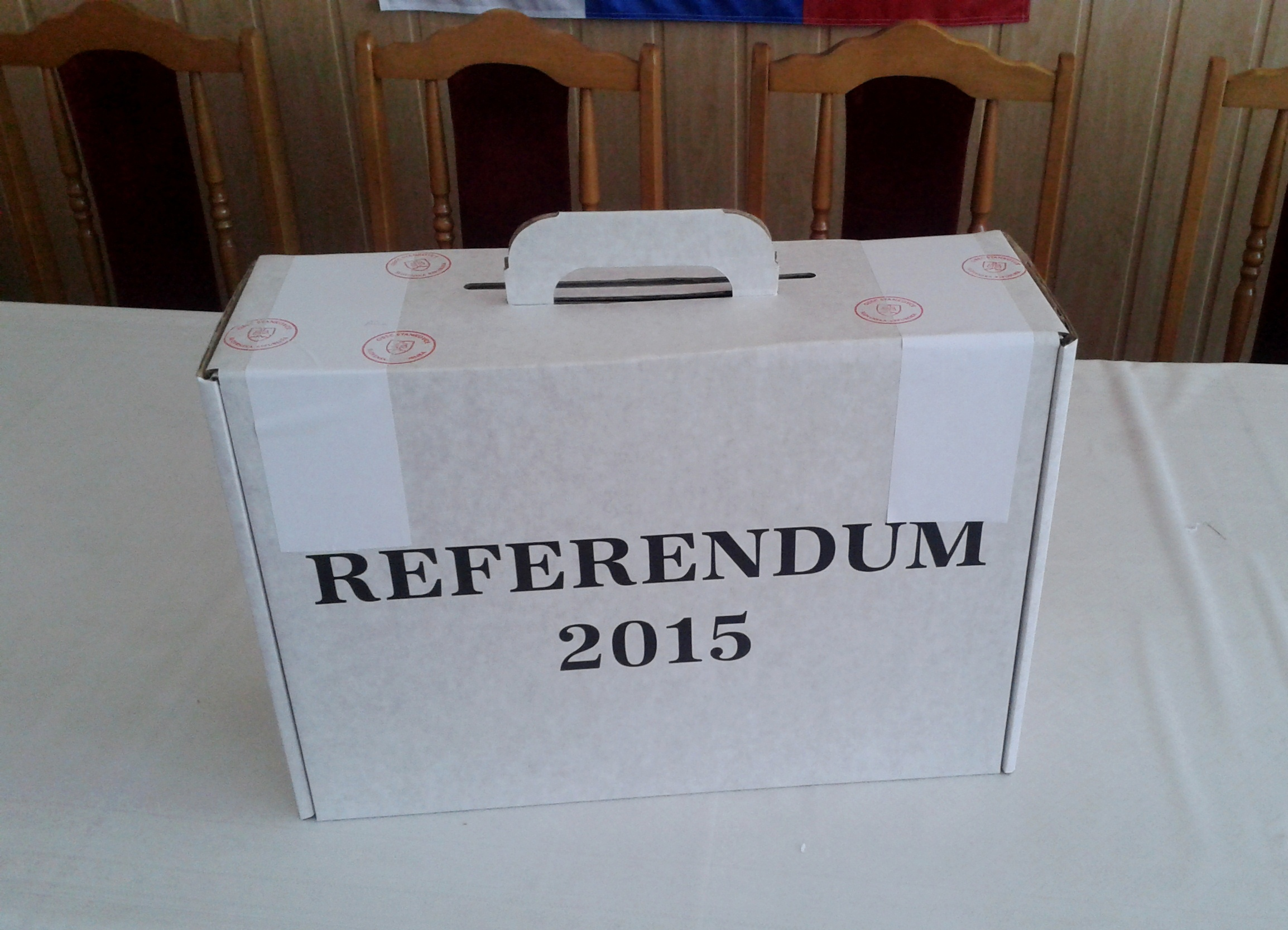 Portable ballot box used in referendum in Slovakia, 2015